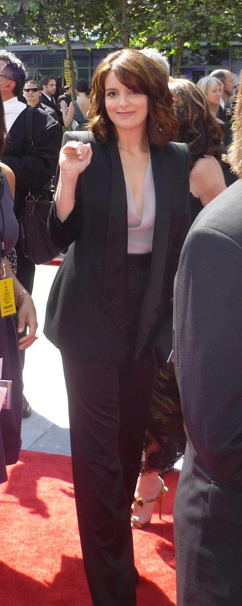 Tina Fey at the Creative Arts Emmys on Saturday (Sept. 12) night